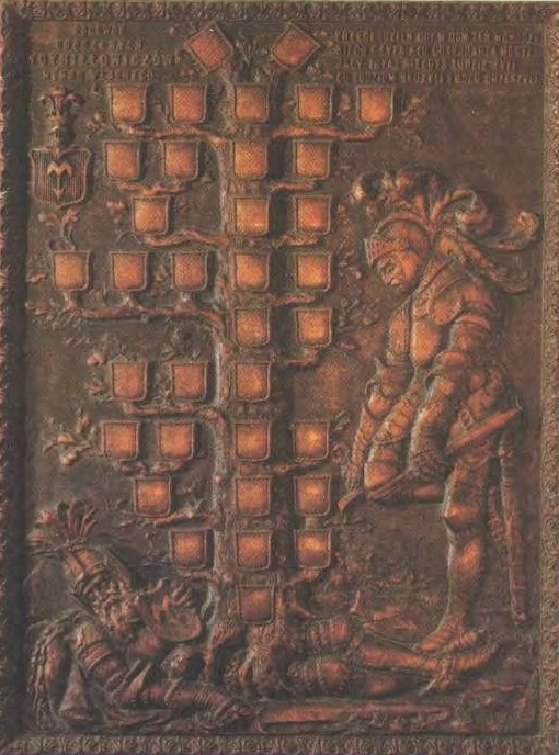 Family Tree Woynillowicz